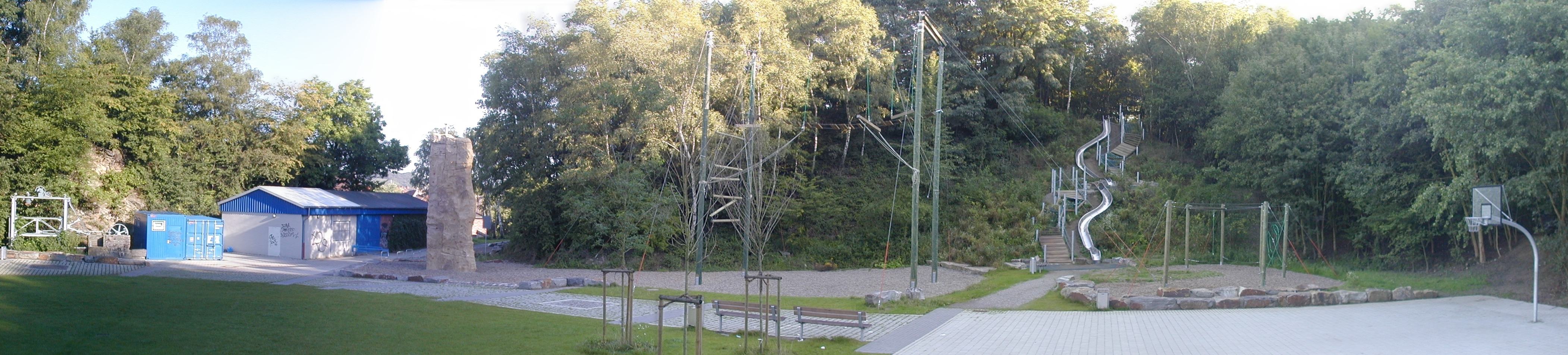 Abenteuerspielplatz Imberg in Witten-Annen This panoramic image was created with Autostitch. Stitched images may differ from reality.